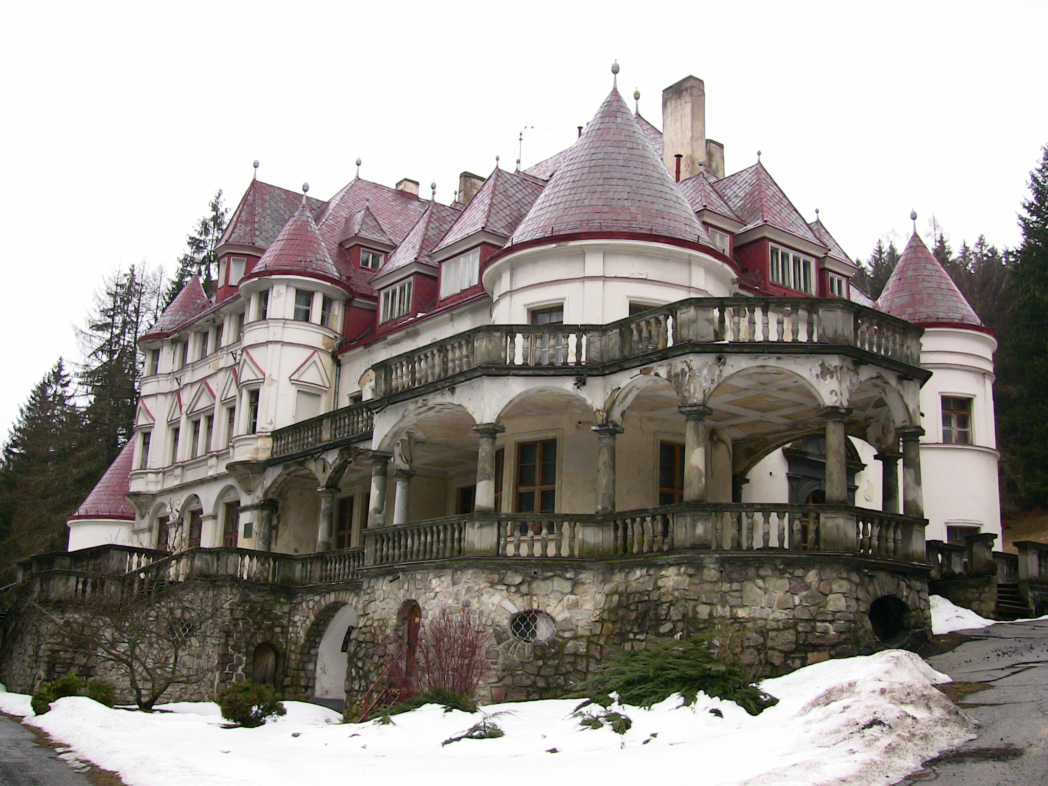 Image of Kunerad Castle